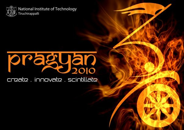 Pragyan 2010 logo